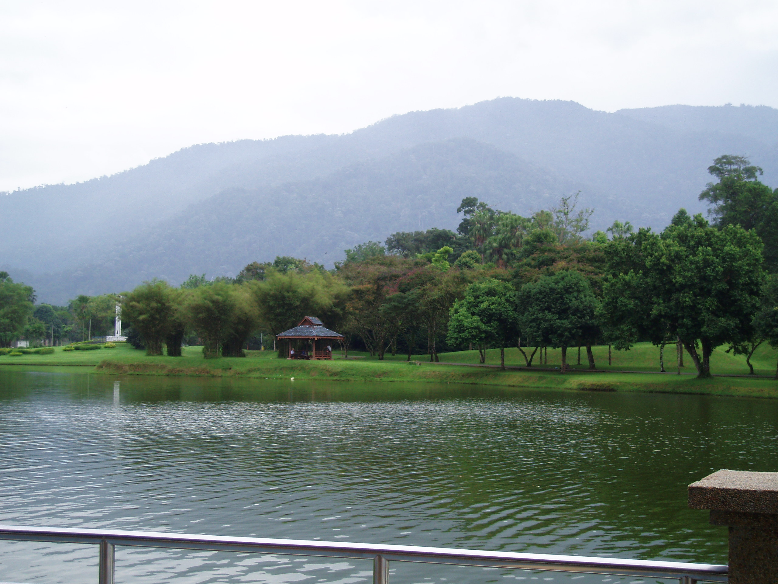 Taiping Lake Gardens, with hills in the background. View of Bukit Larut from the gardens.